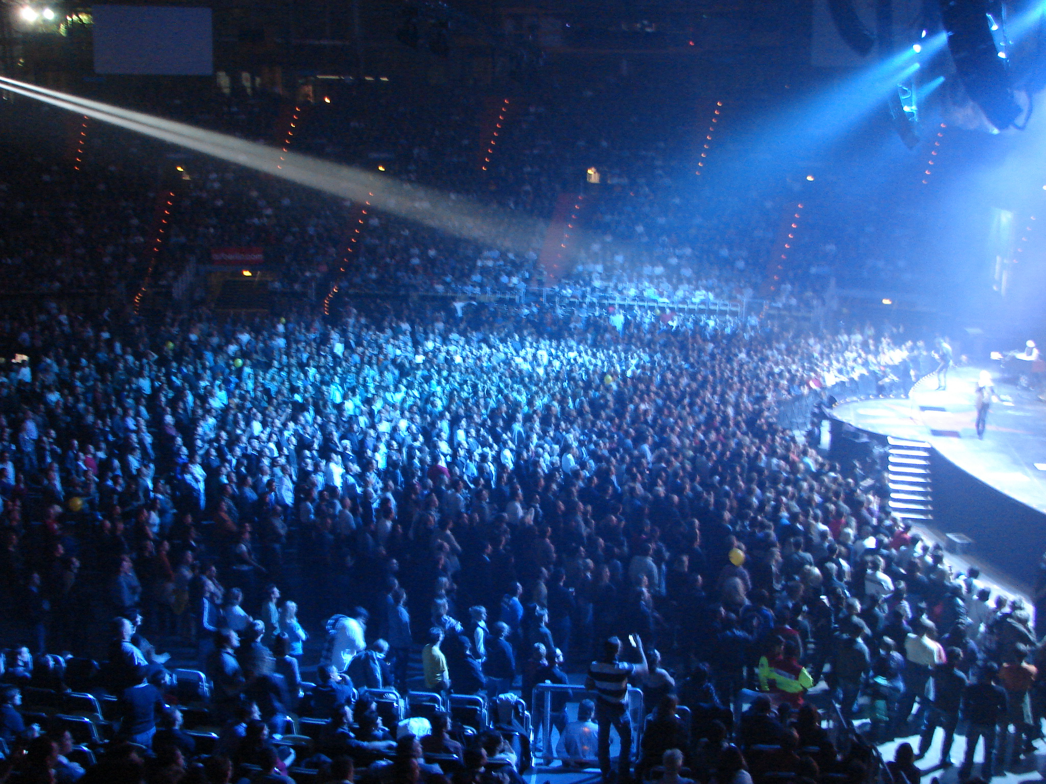 Isochronous playing at the Olympiahalle in Munich, Germany. 11 October 2010.